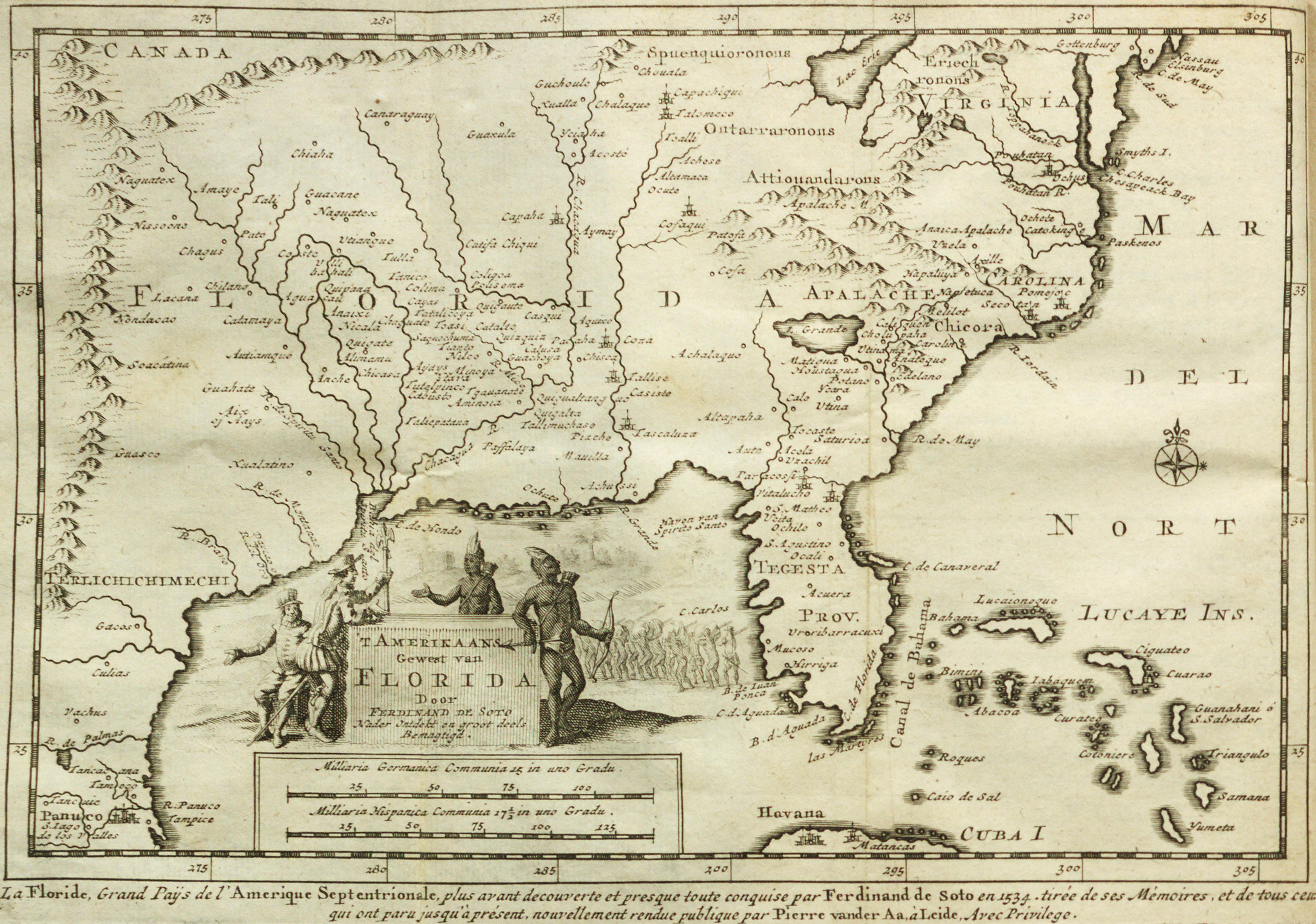 Map of Florida, as discovered/explored by Hernando de Soto. Map engraved by Pieter van der Aa.